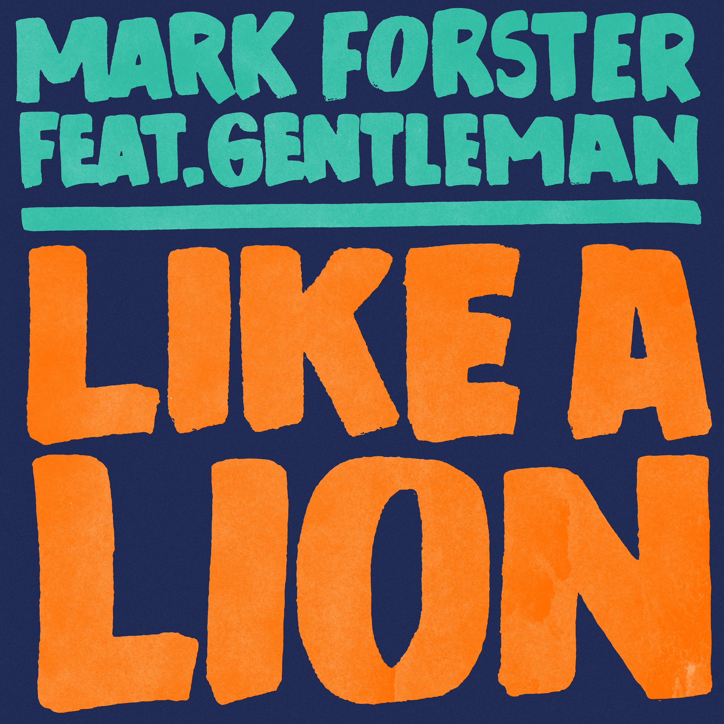 „Like a Lion“ Single-Cover by Mark Forster feat. Gentleman.